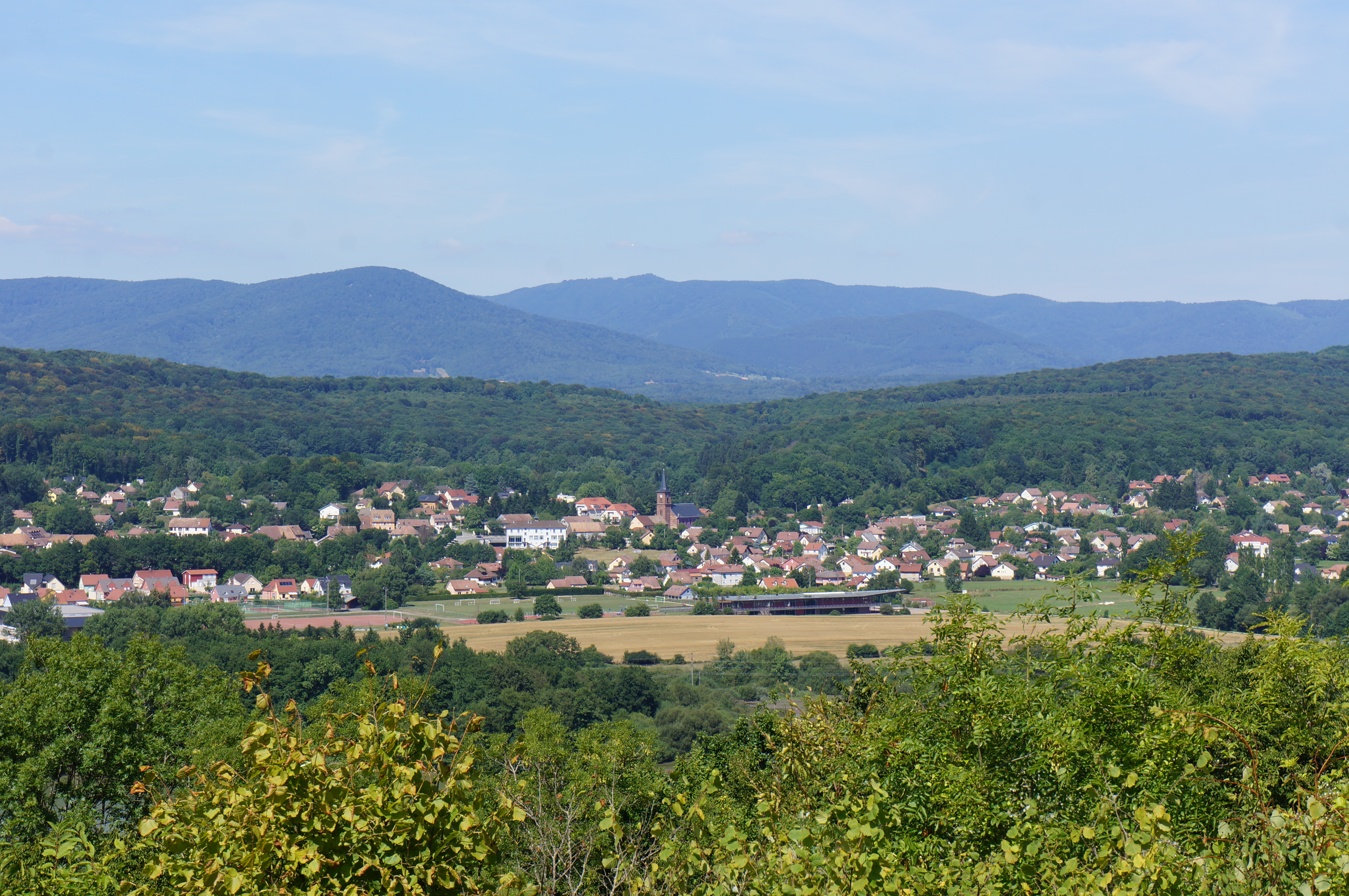 Panoramic views of Offemont.